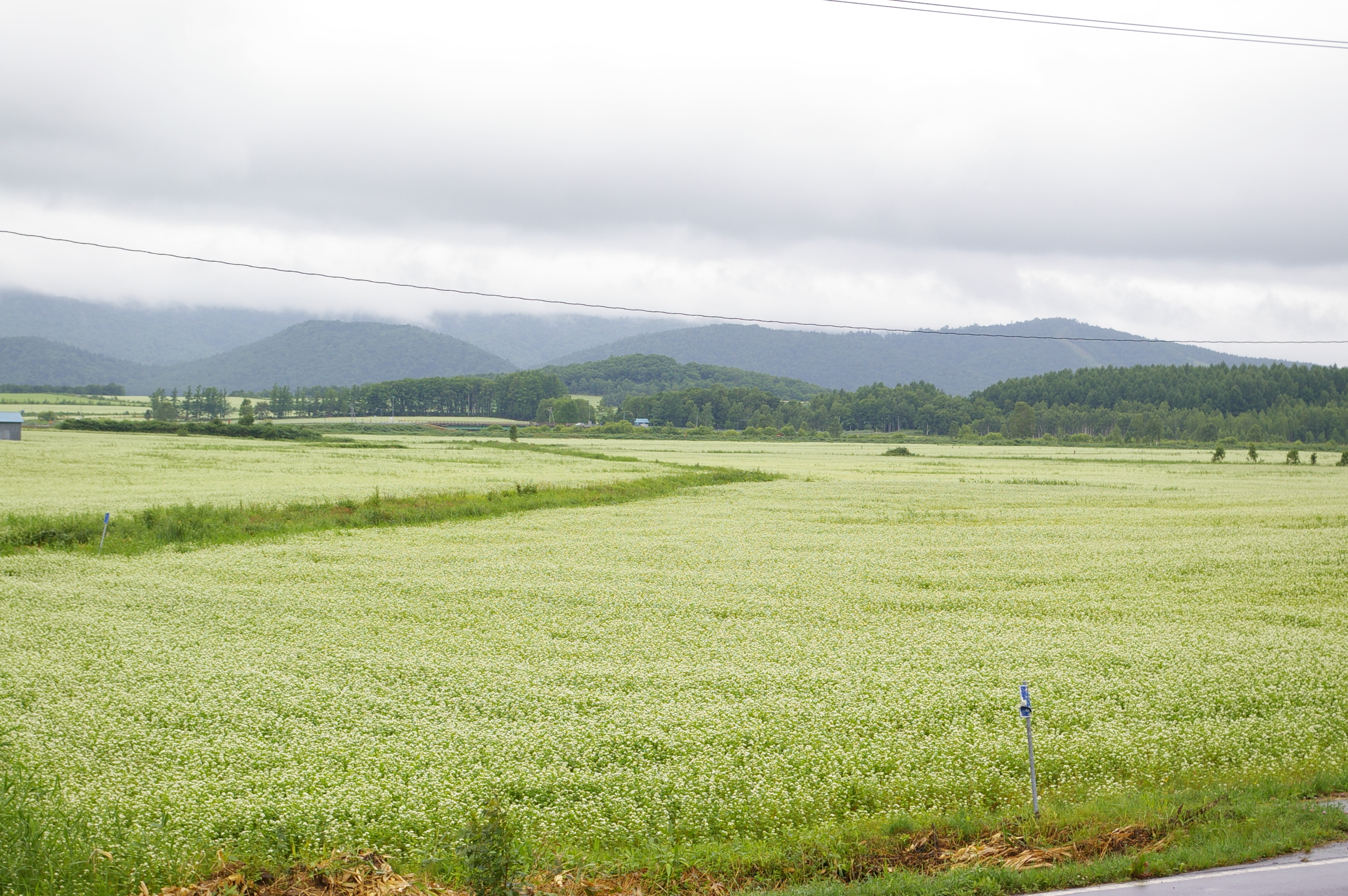 field of buckwheat at Horokanai, Hokkaido